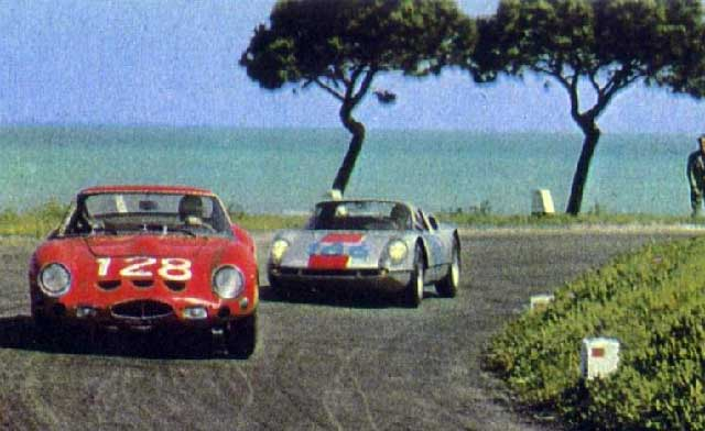 A red 1962 Ferrari 250 GTO s/n 3705GT (Egidio Nicoloi+Pierluigi Zanardelli, 13th place) and a silver Porsche 904/8 (Edgar Barth+Umberto Maglioli, 6th place) at 1964 Targa Florio[1]